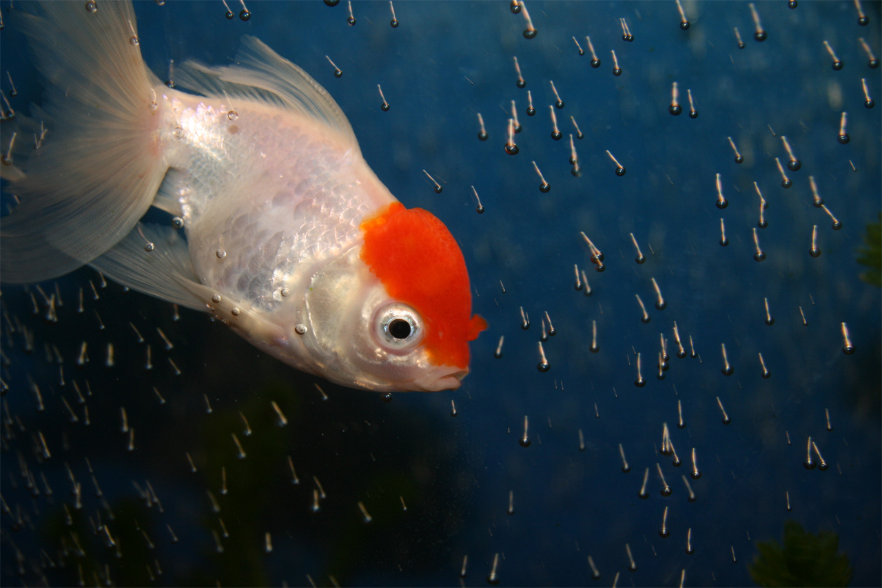 A goldfish (red capped oranda)